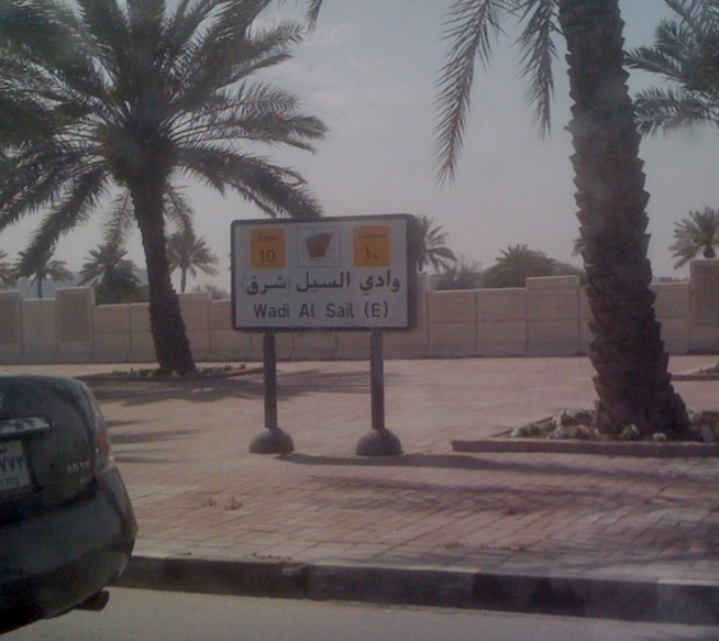 Sign for Wadi Al Sail (Zone 10) in Doha, Qatar.